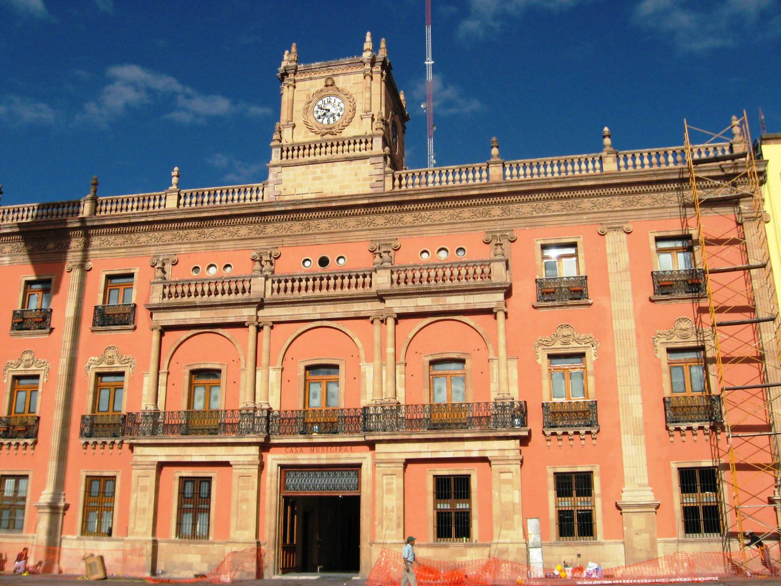 Municipal government building of Casa Municipal in Leon Guanjuato Mexico